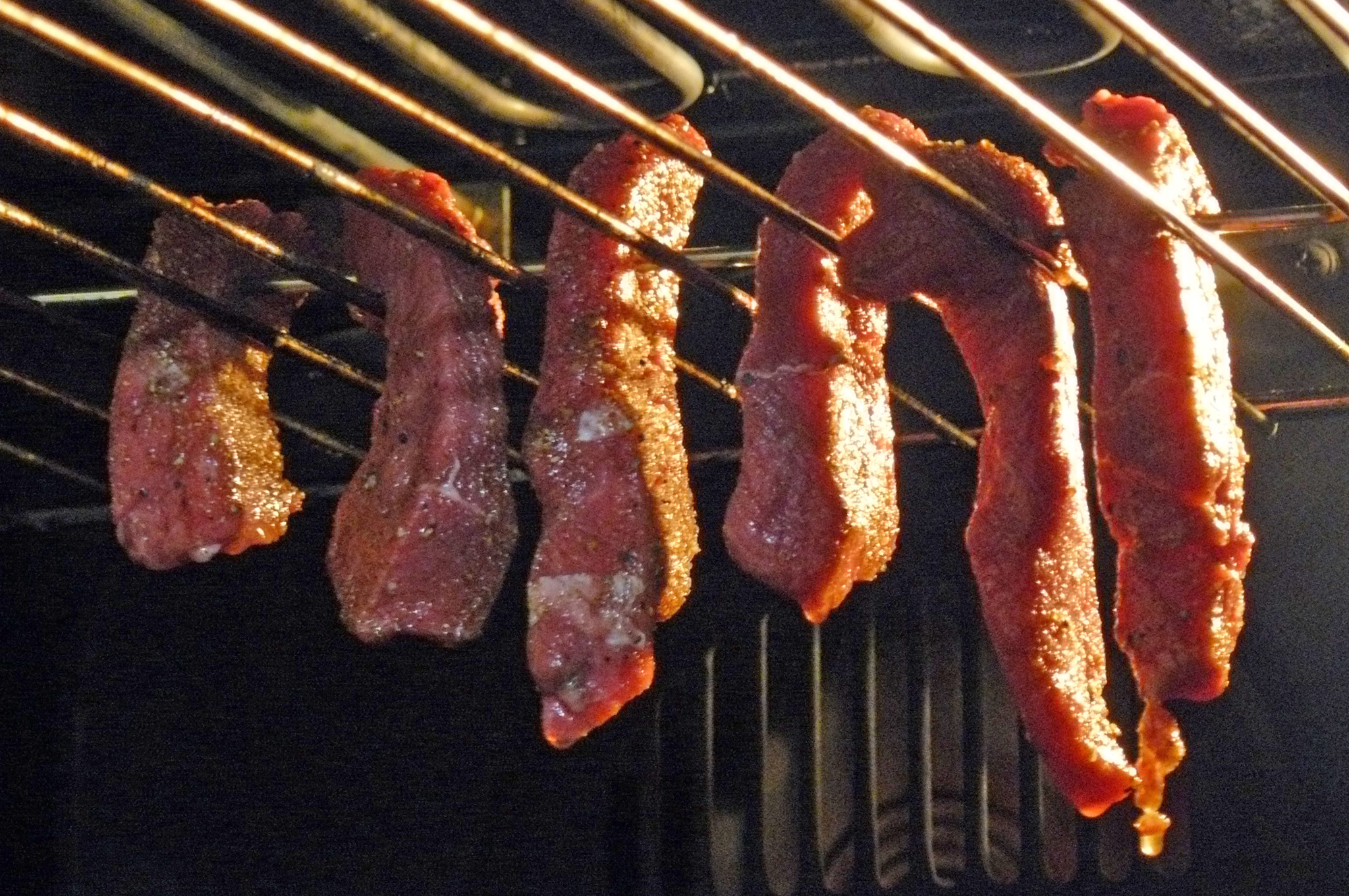 Biltong quick drying using an electric oven Author: Jamsta